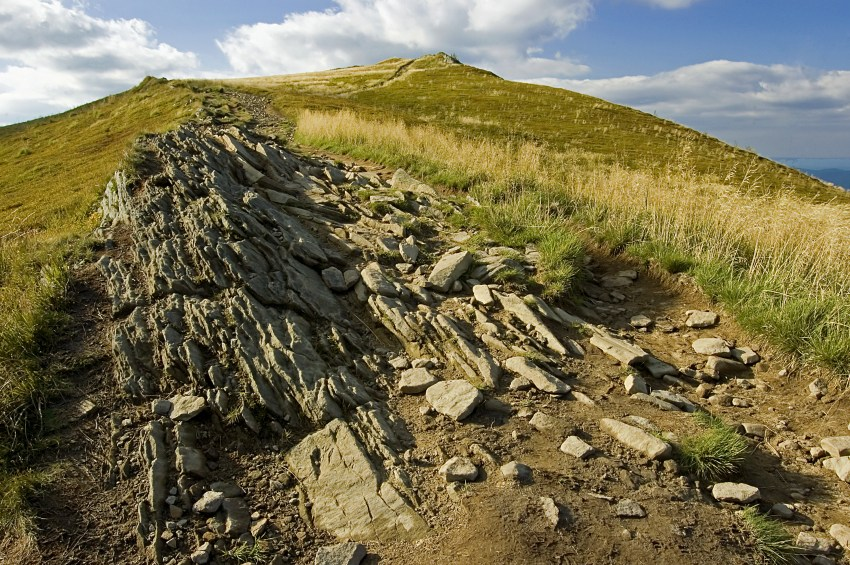 View of Kruhly Wierch in polish side of Bieszczady Mountains